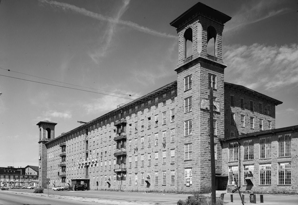 Richard Borden Mill No.1 (1968 photo), burned November 1981. Southern corner, view looking north-northwest.